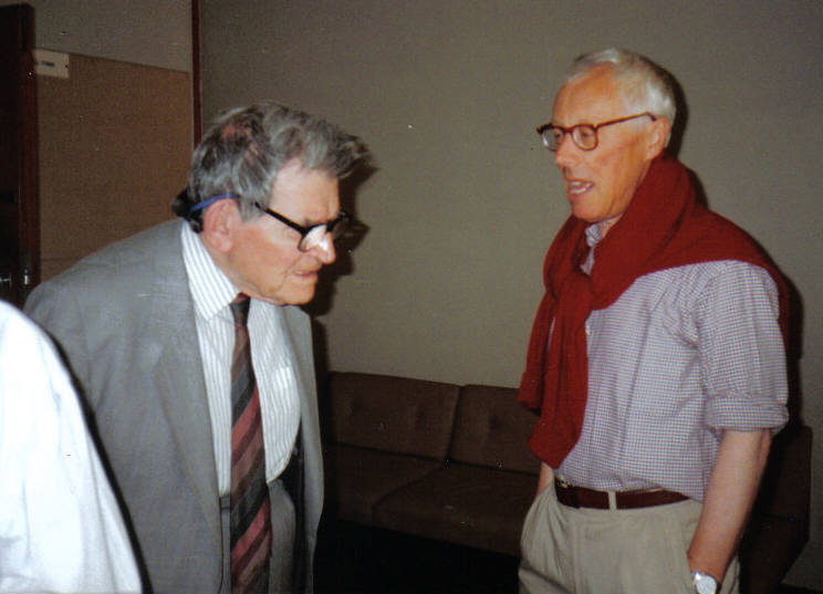 This is my photograph of George Davie and Vincent Hope taken in September 1996 during the conference in honour of George Davie. It is to be used in the wikipedia biography of George Elder Davie.